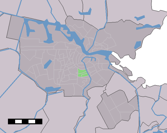 Location of neighbourhoods/districts in Amsterdam